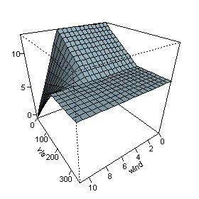 Plot of a bivariate Friedman's Multivariate Adaptive Splines Regression (MARS) model (compare to Friedmans_mars_simple_model.png)